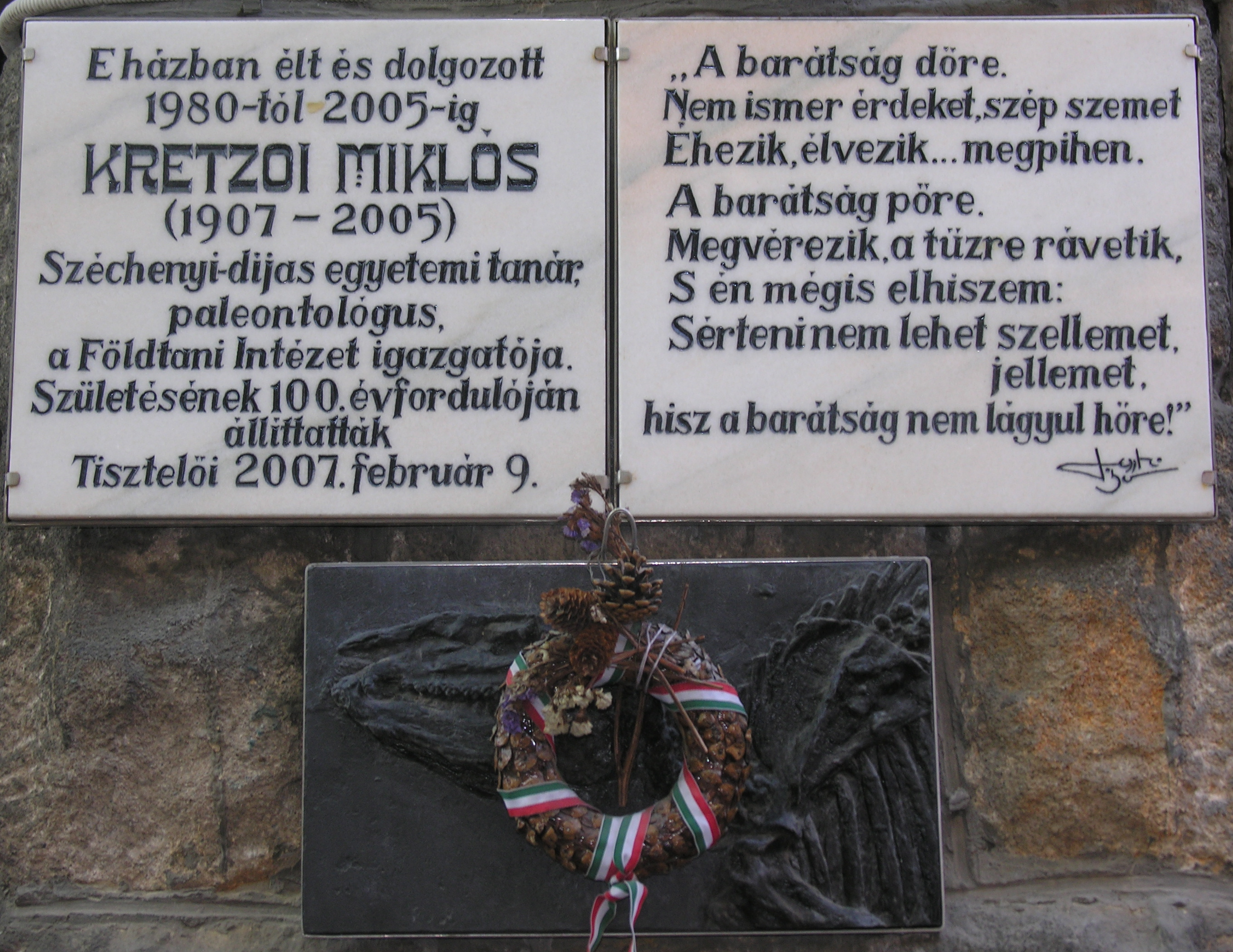 Commemorative plaque of Miklós Kretzoi (Budapest District II, Lövőház Street No 24)